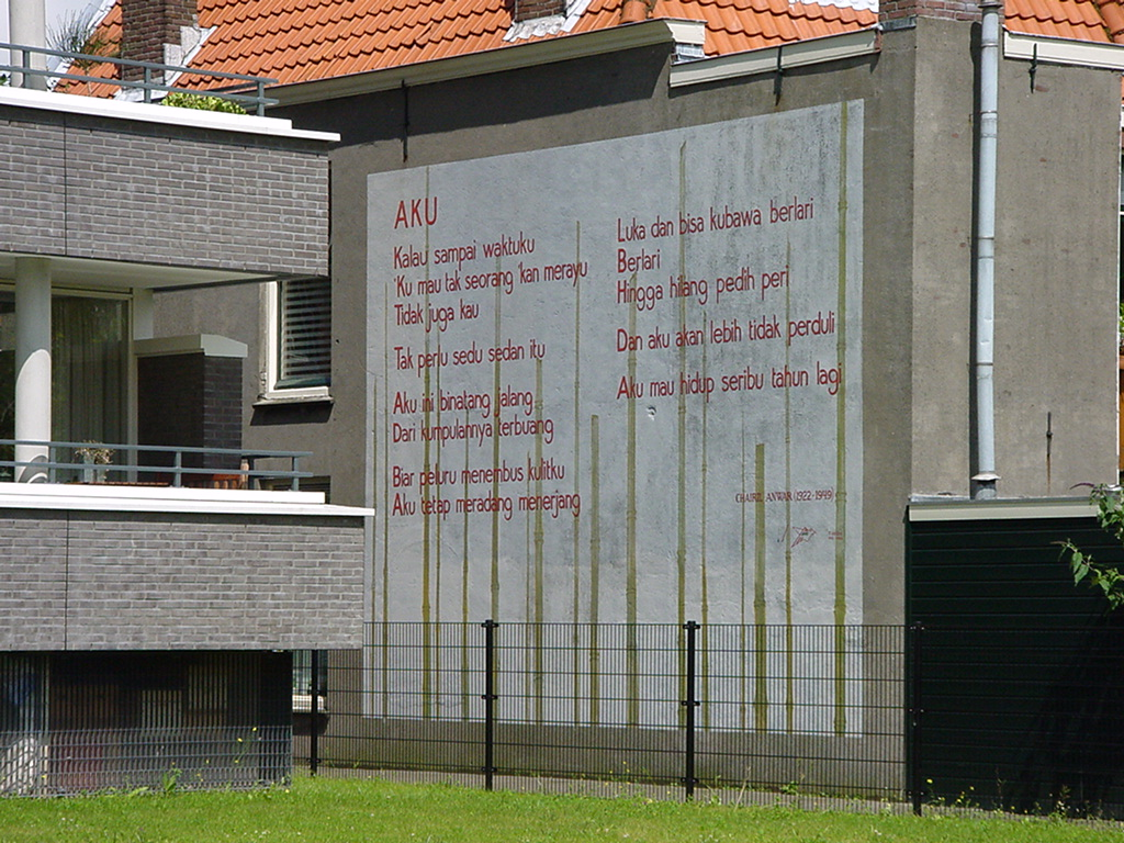 Wallpoem in de city of Leiden in the Netherlands.